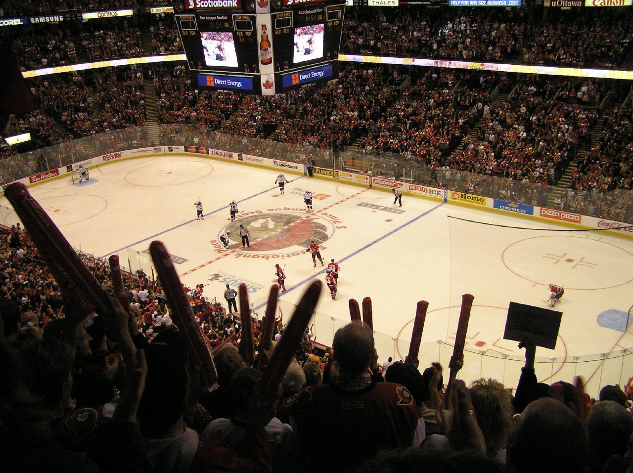 Players on the ice during the first ice hockey playoff game between the Ottawa Senators and the Tampa Bay Lightning for the 2006 Stanley Cup. Fans hold "two plastic blow-up sticks, which make a hell of a racket when banged together".